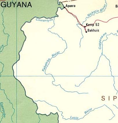 Suriname, political map (1991). Produced by the U.S. Central Intelligence Agency.